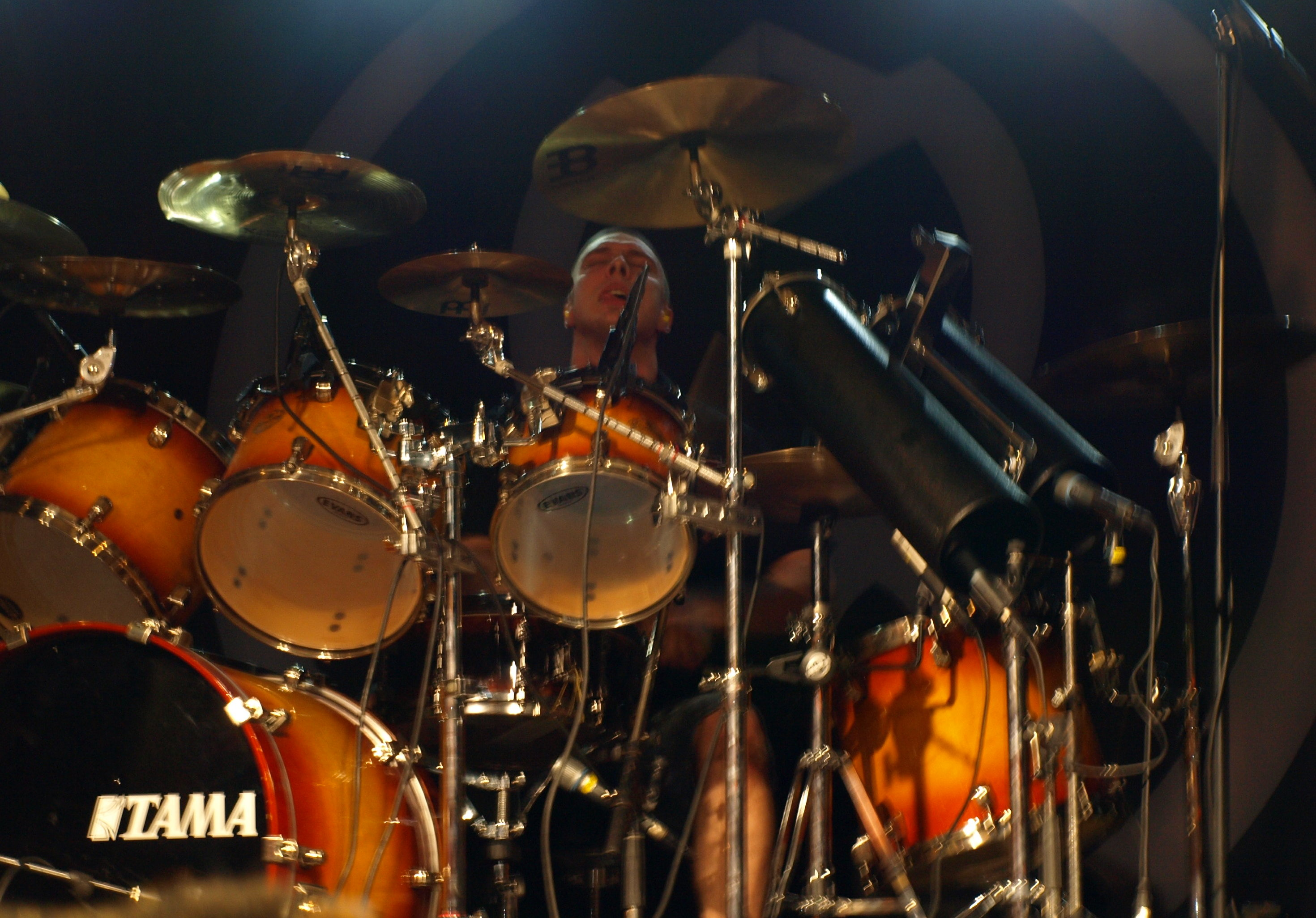 Finnish thrash metal band Stam1na live at Nosturi, Helsinki